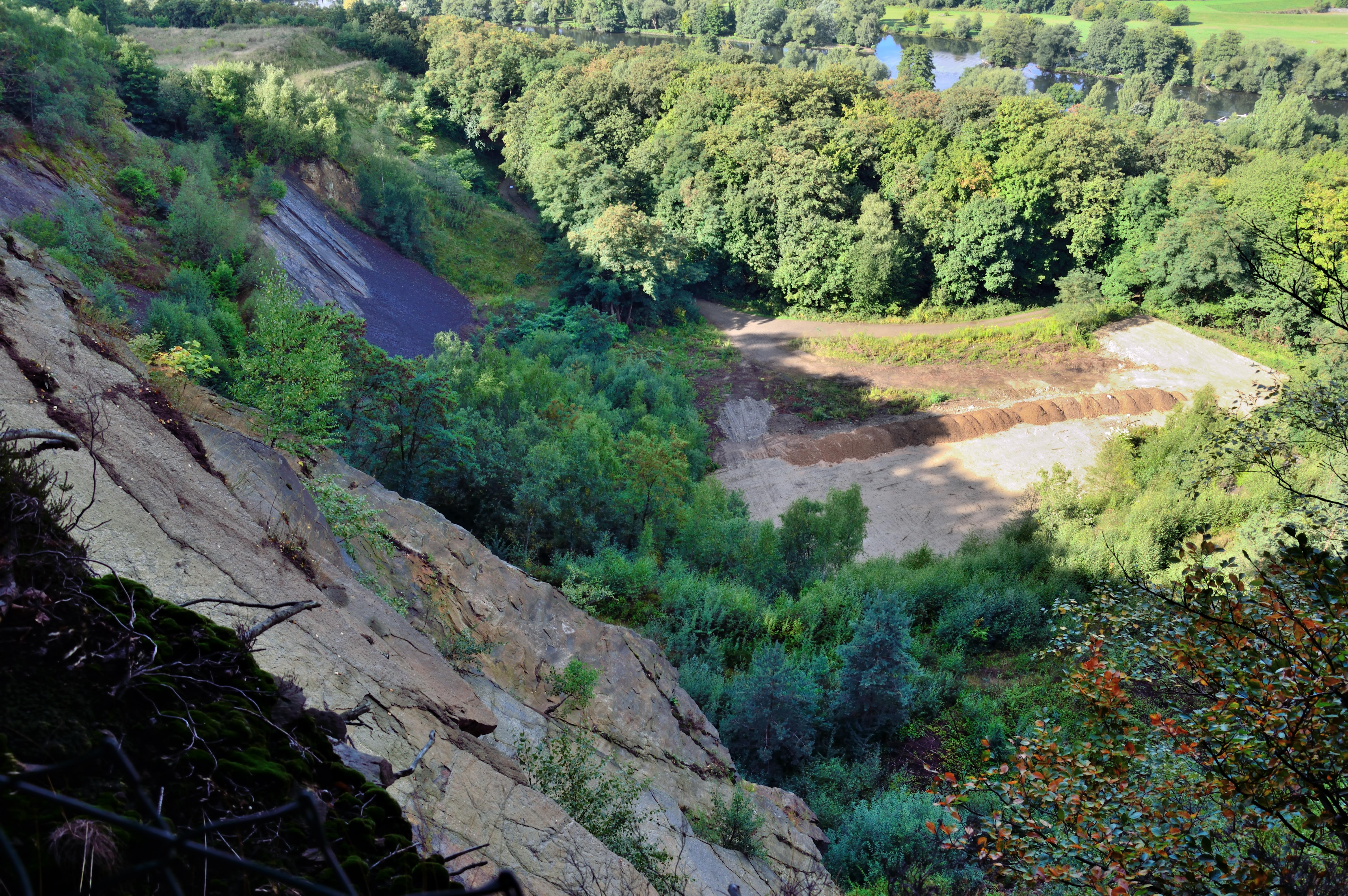 Quarry Steinbruch Rauen in Witten, Germany; river Ruhr in the background